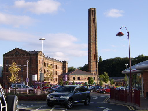 Old Industrial Building.